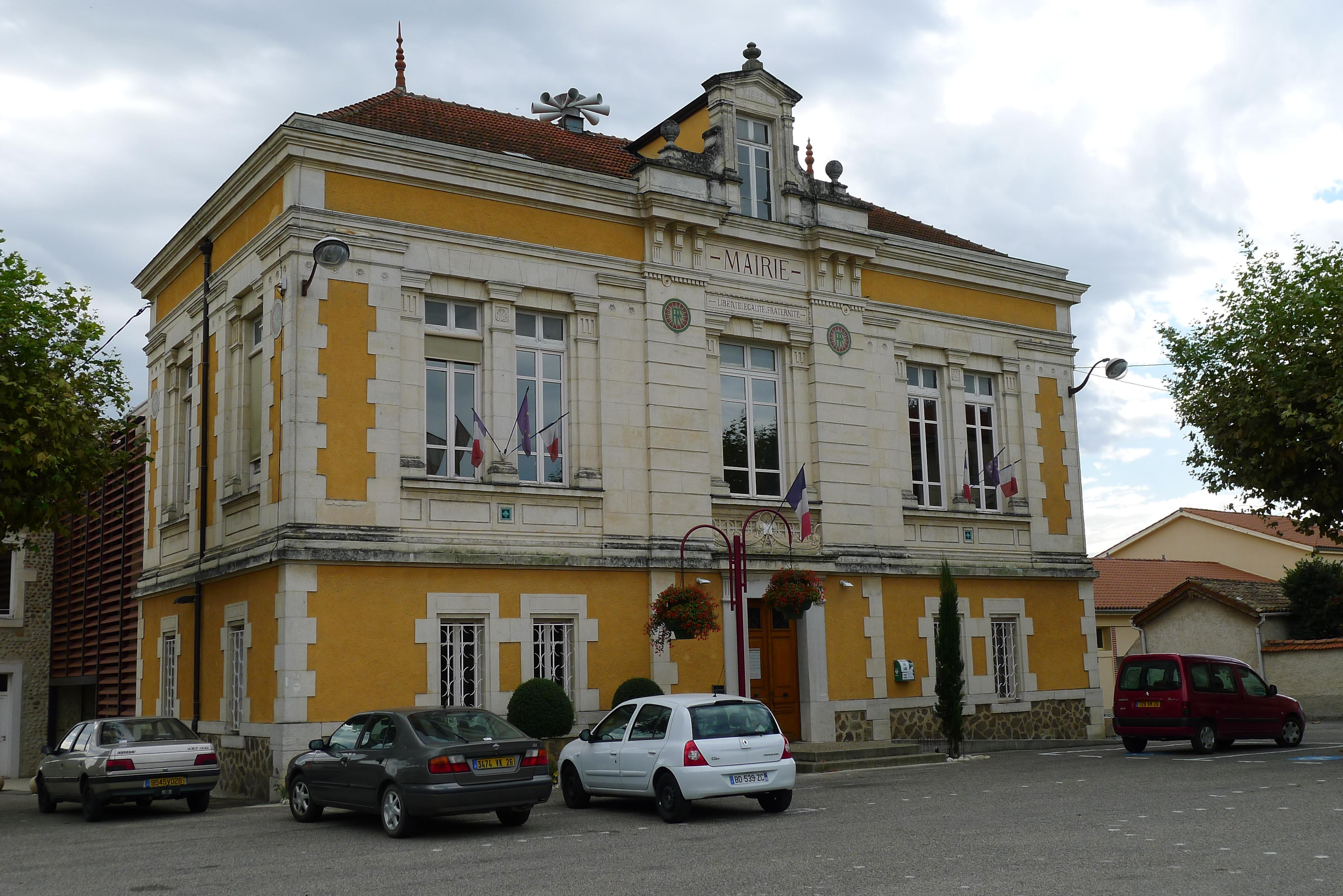 Town hall of Anneyron - Drôme - France